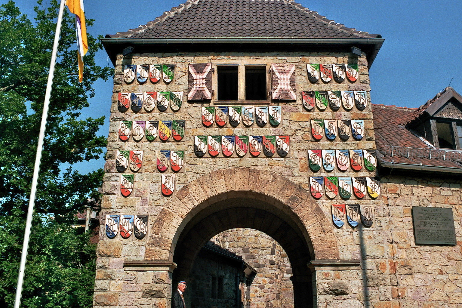 Gate of Wachenburg Castle close to Weinheim in Baden-Württemberg / Germany, decorated with coats of arms of student fraternities